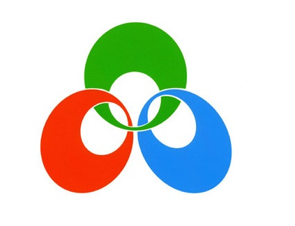 Flag of Mitane Akita